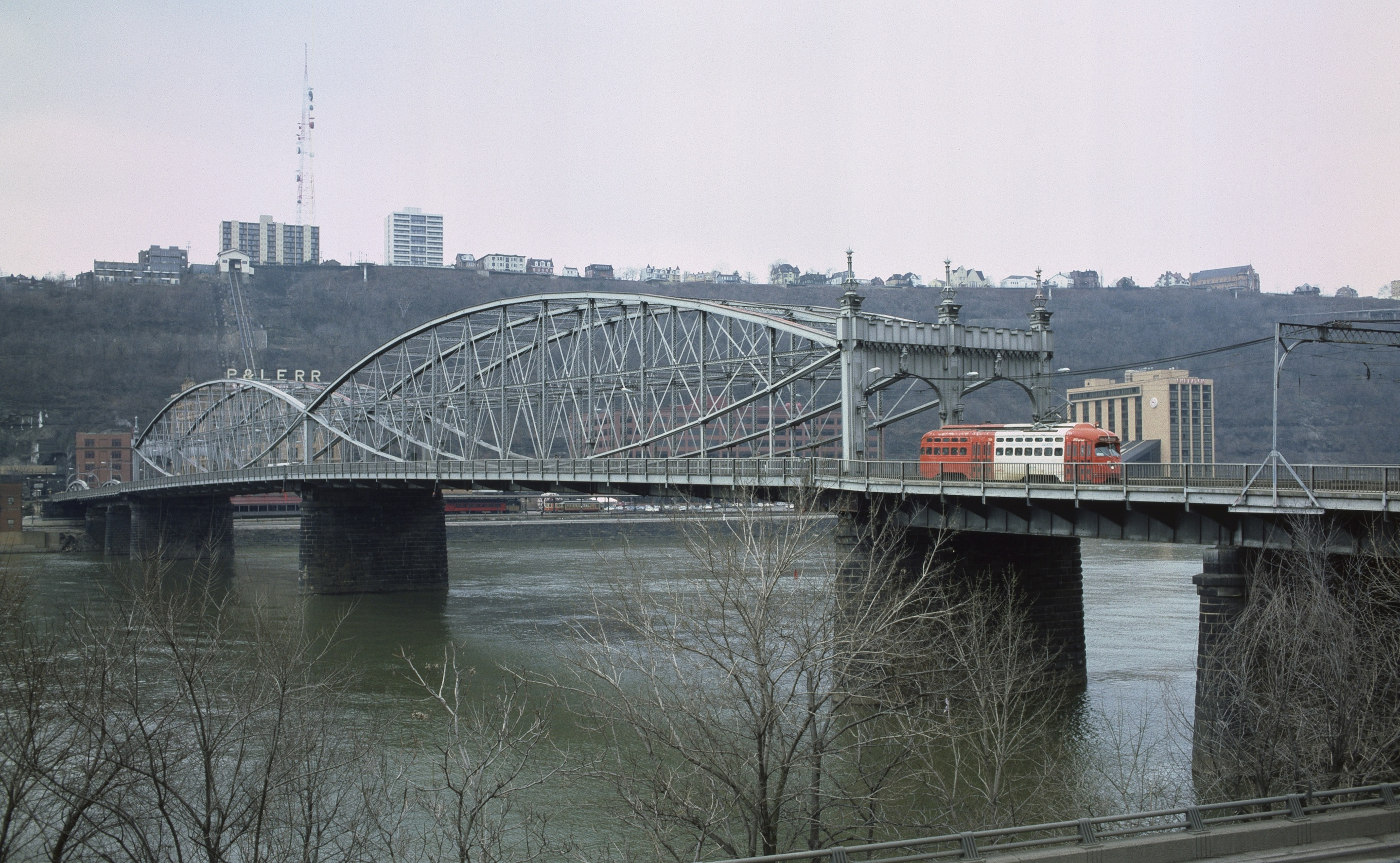 Pittsburgh's historic Smithfield Street Bridge viewed from the northeast in 1984. A PCC-type trolley car (streetcar/tram) is leaving the bridge, on its way into downtown. The bridge was built in 1881–1883 and is a U.S. National Historic Landmark. In the background, the Monongahela Incline is visible.